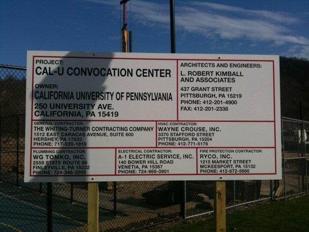 Cal Convocation Center Construction. Say that five times fast.